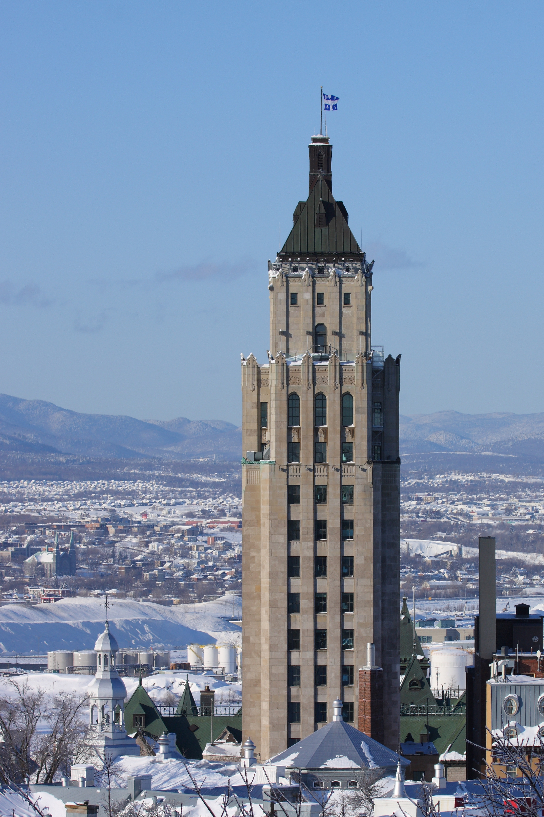 Édifice Price, Quebec City.